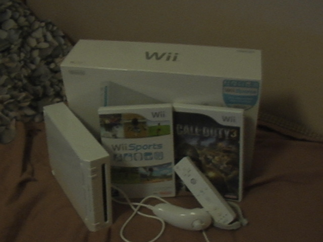 Finnish Nintendo Wii box, the console, Nunchuk & Remote, Wii Sports & Call of Duty 3